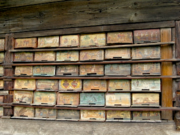 Beehive painting, Anton Janša's beehive, Breznica, Slovenia